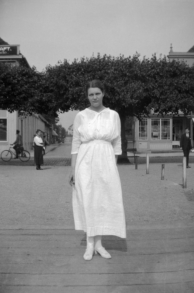 Berit Wallenberg in Travemünde, Schleswig-Holstein, Germany